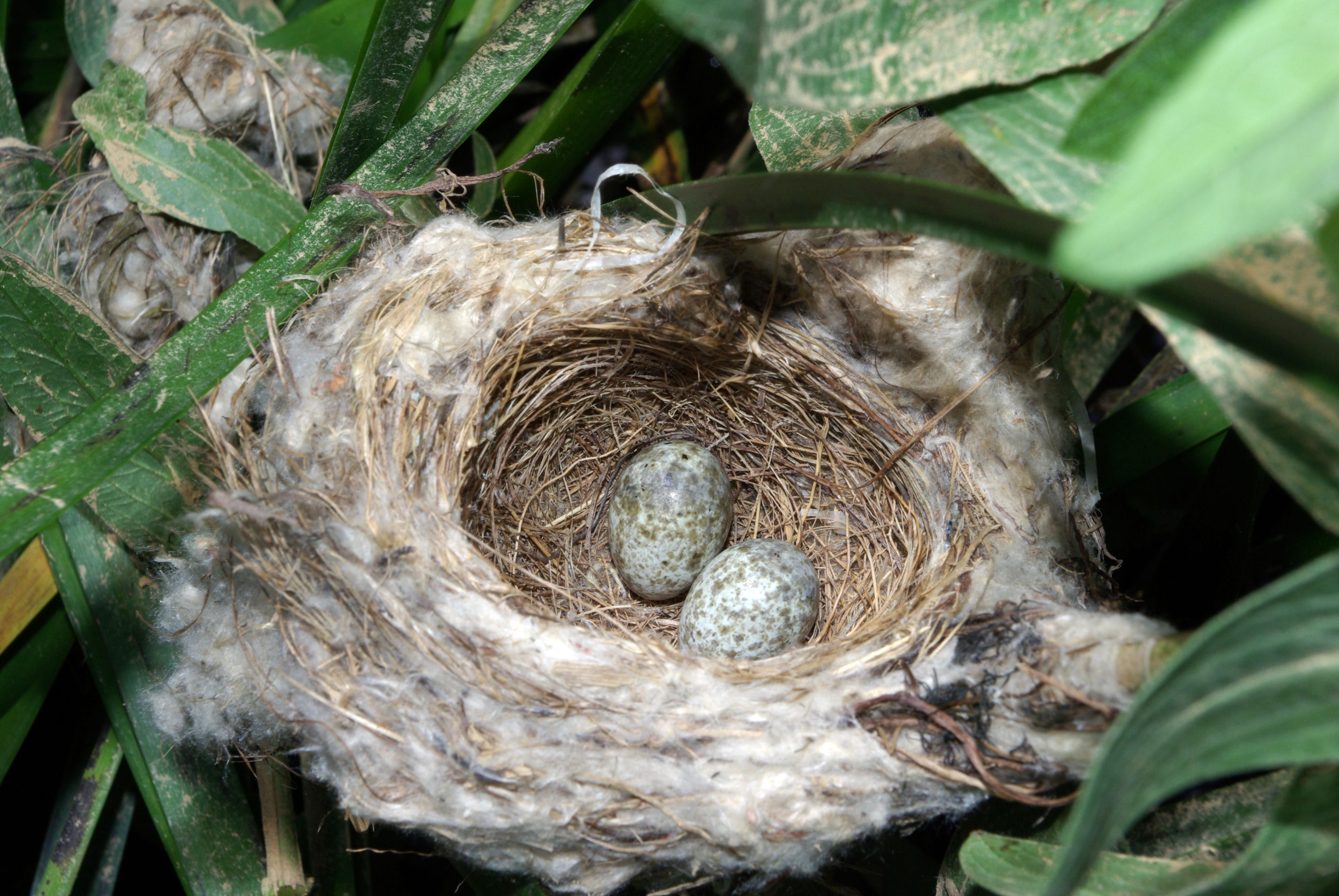 Nest of Eurasian Reed Warbler (Acrocephalus scirpaceus). River Cea, near Mayorga (Valladolid, Spain)